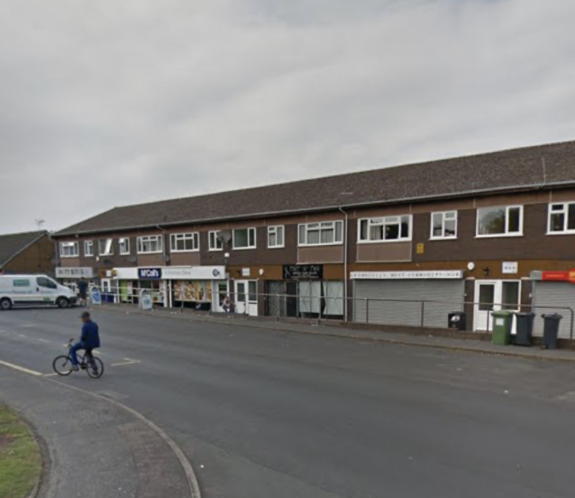 Brownhills West Shops